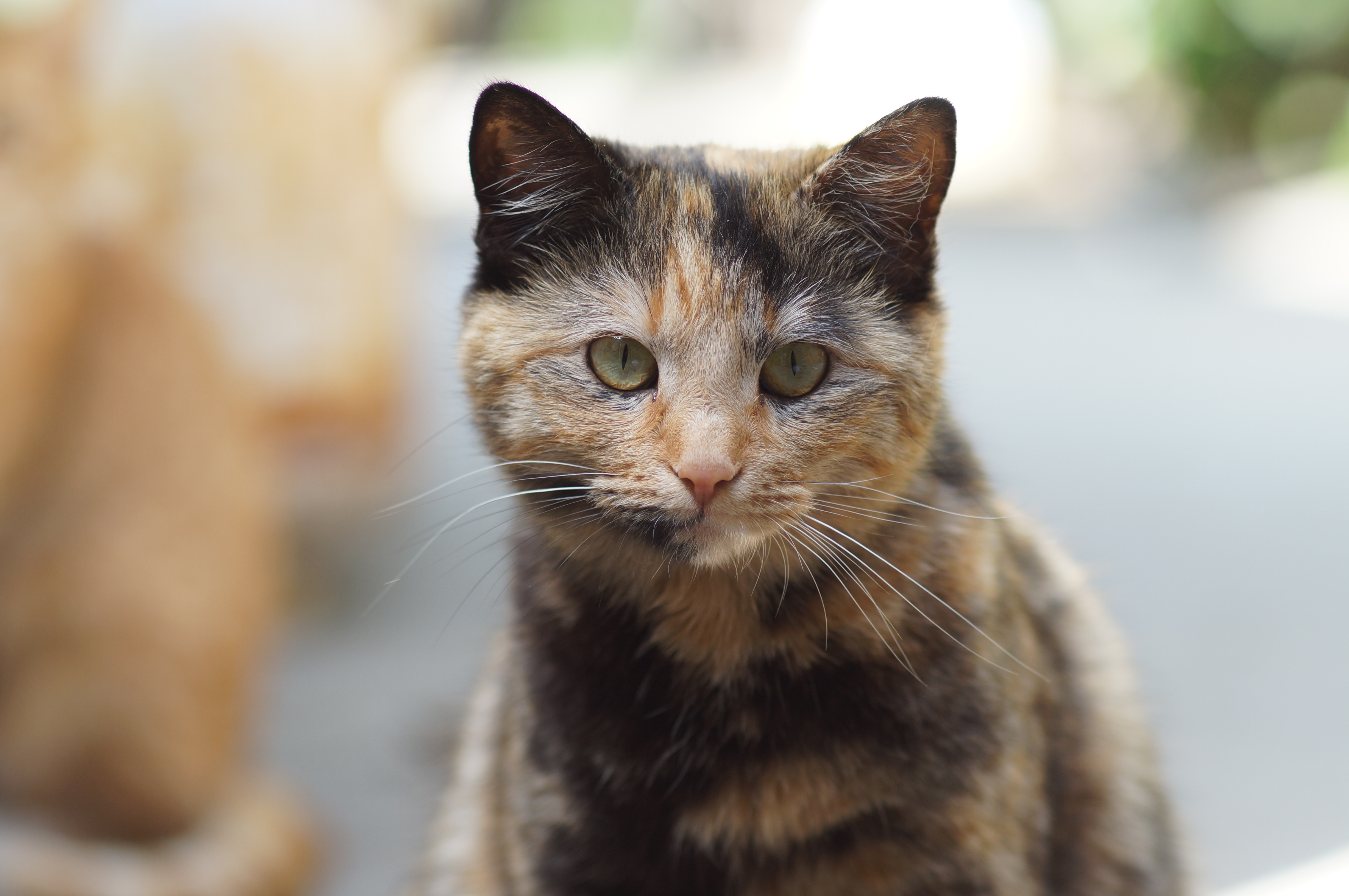 Domestic shorthair tortoiseshell cat. This is a pregnant female. Individual white hairs and light-colored hair patches are visible, but they are small compared with the orange and black patches.